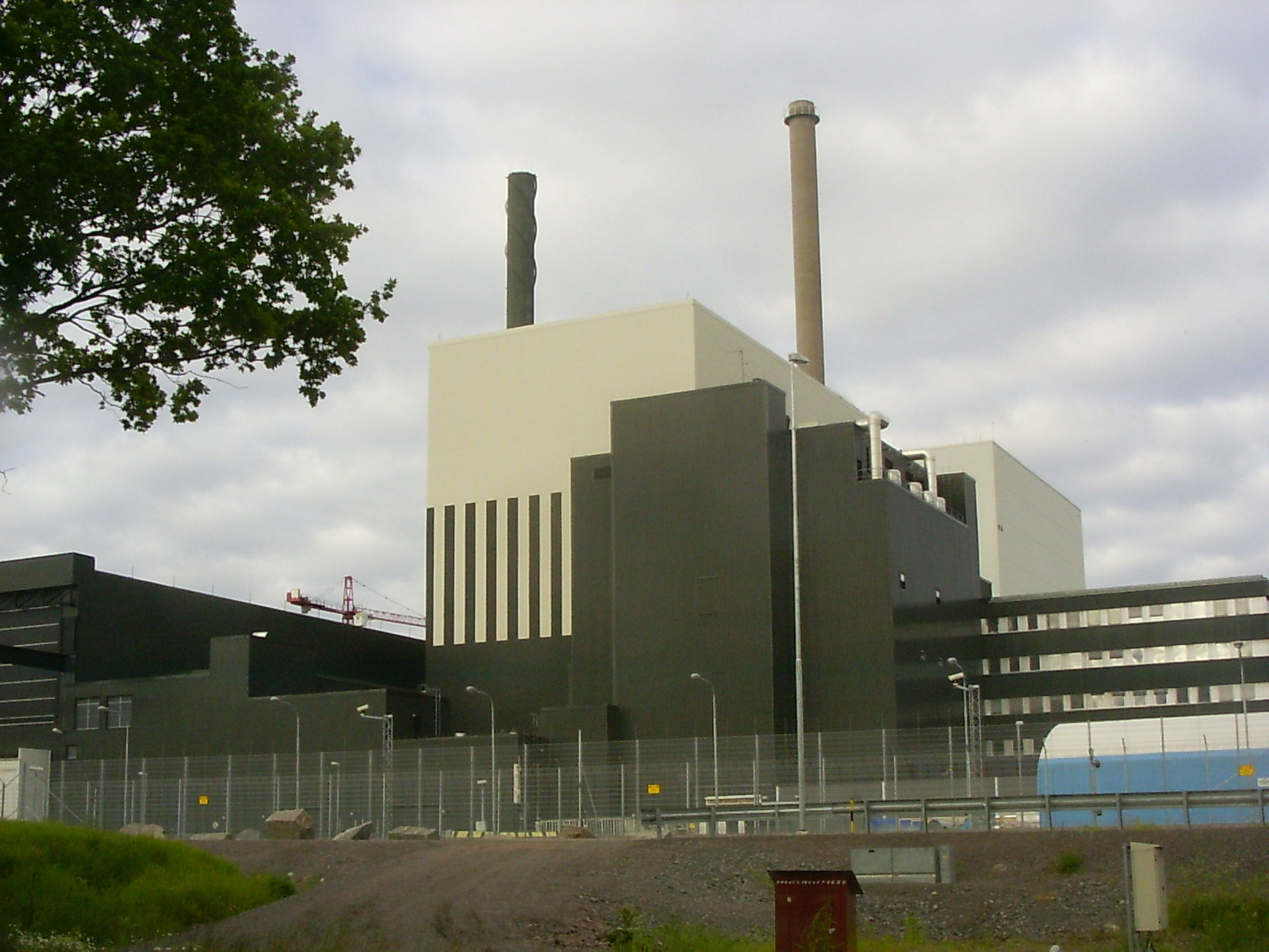 Oskarshamn nuclear power plant, reactor 1